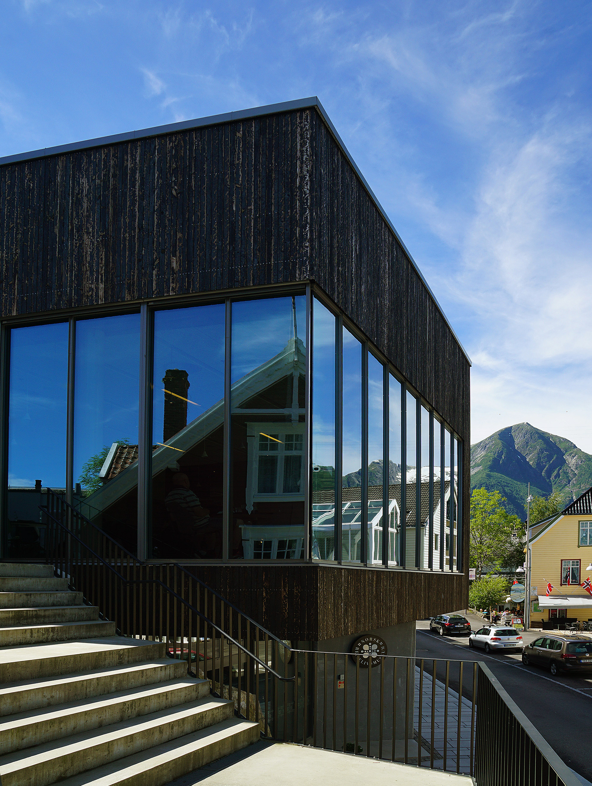 The Norwegian Museum of Travel and Tourism in Balestrand, with the mountain peak Vindreken in the background.